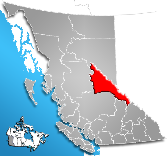 Location of en: Regional District of Fraser-Fort George, British Columbia